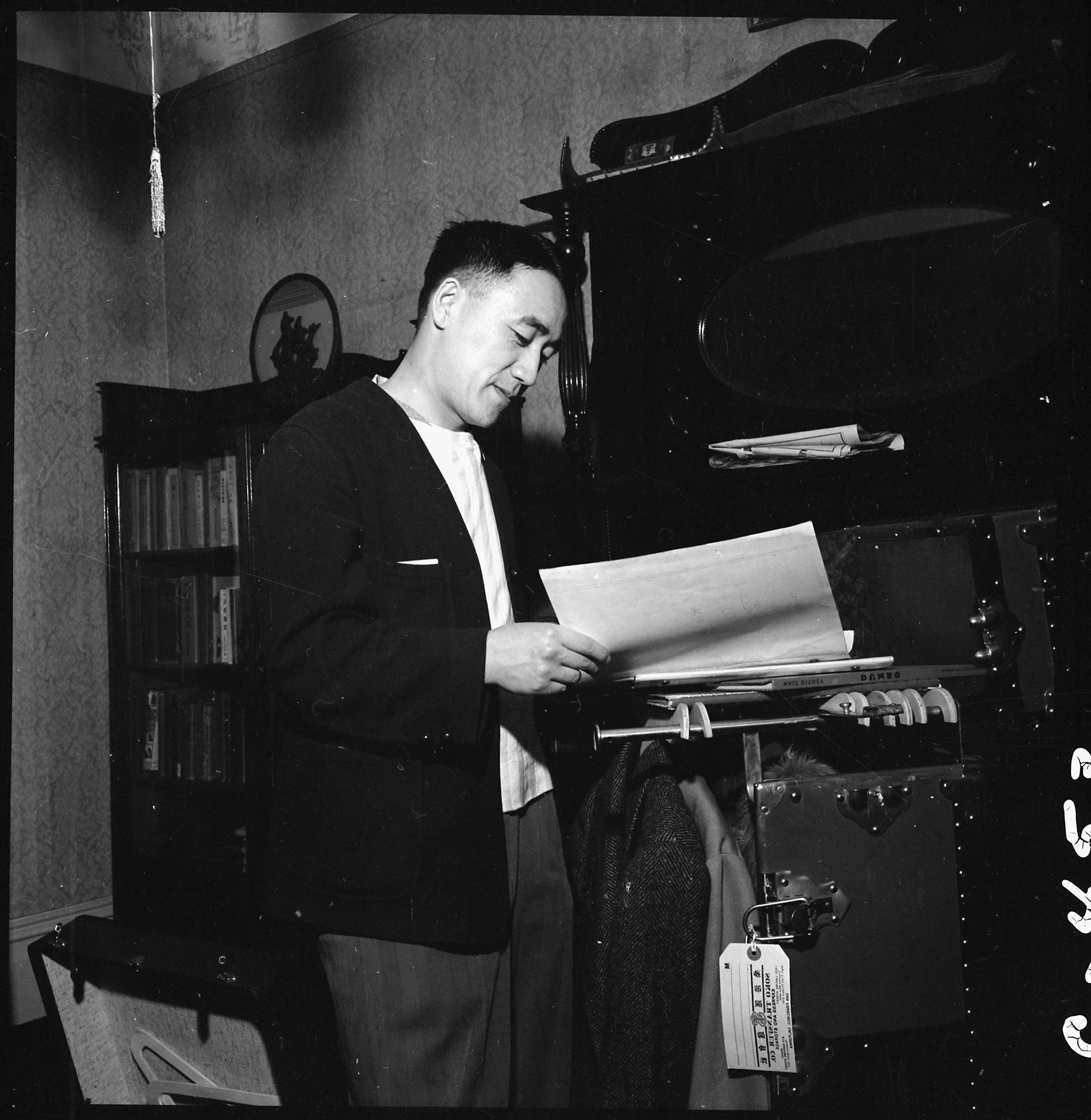 Scope and content: The full caption for this photograph reads: San Francisco, California. Dave Tatsuno, graduate of University of California in 1936, is making preparations for evacuation which is due in a few days. In packing his possessions, he came across college notes and is shown re-reading them.